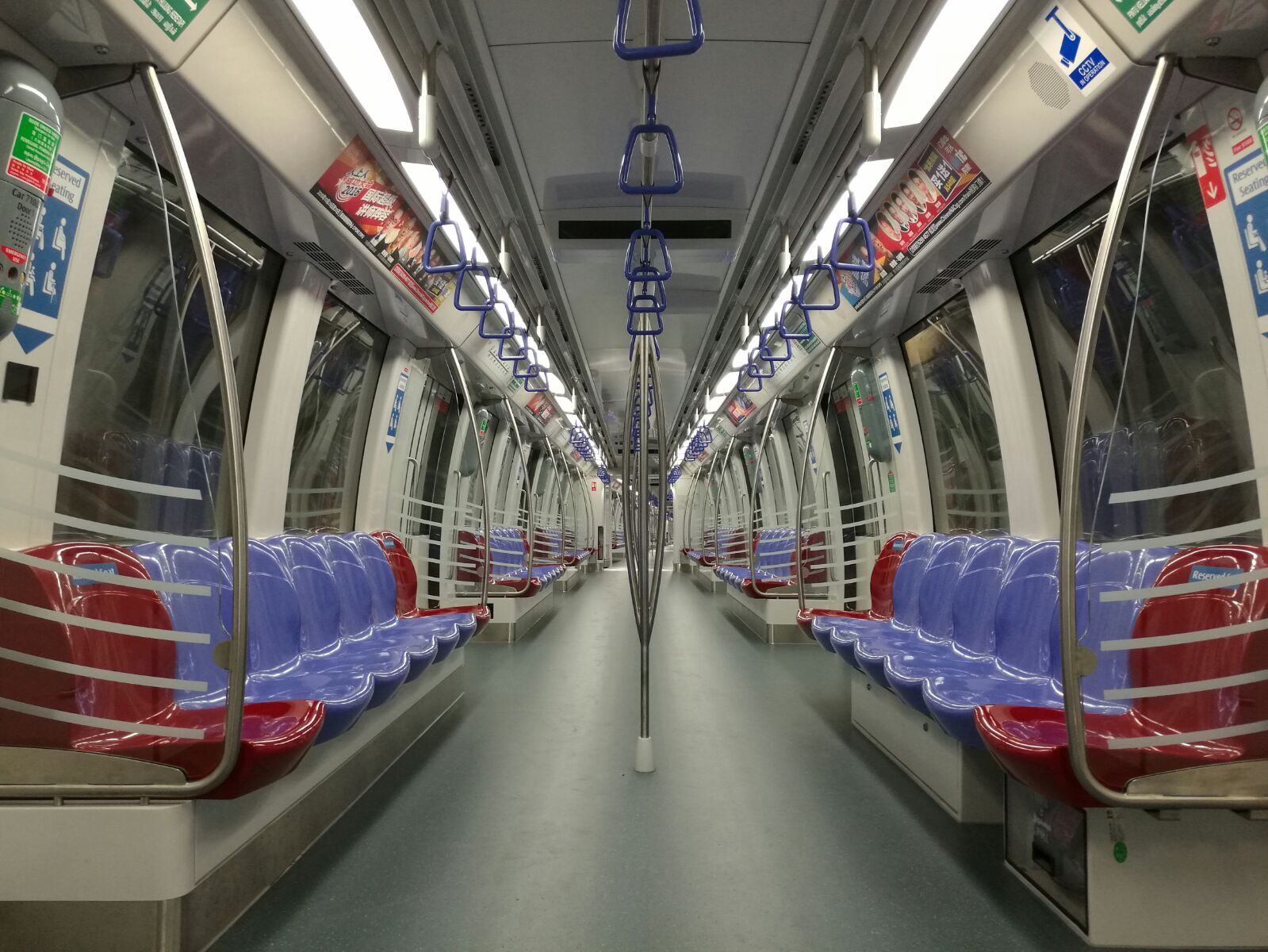 An interior shot of an Alstom Metropolis C751C interior in September 2016.